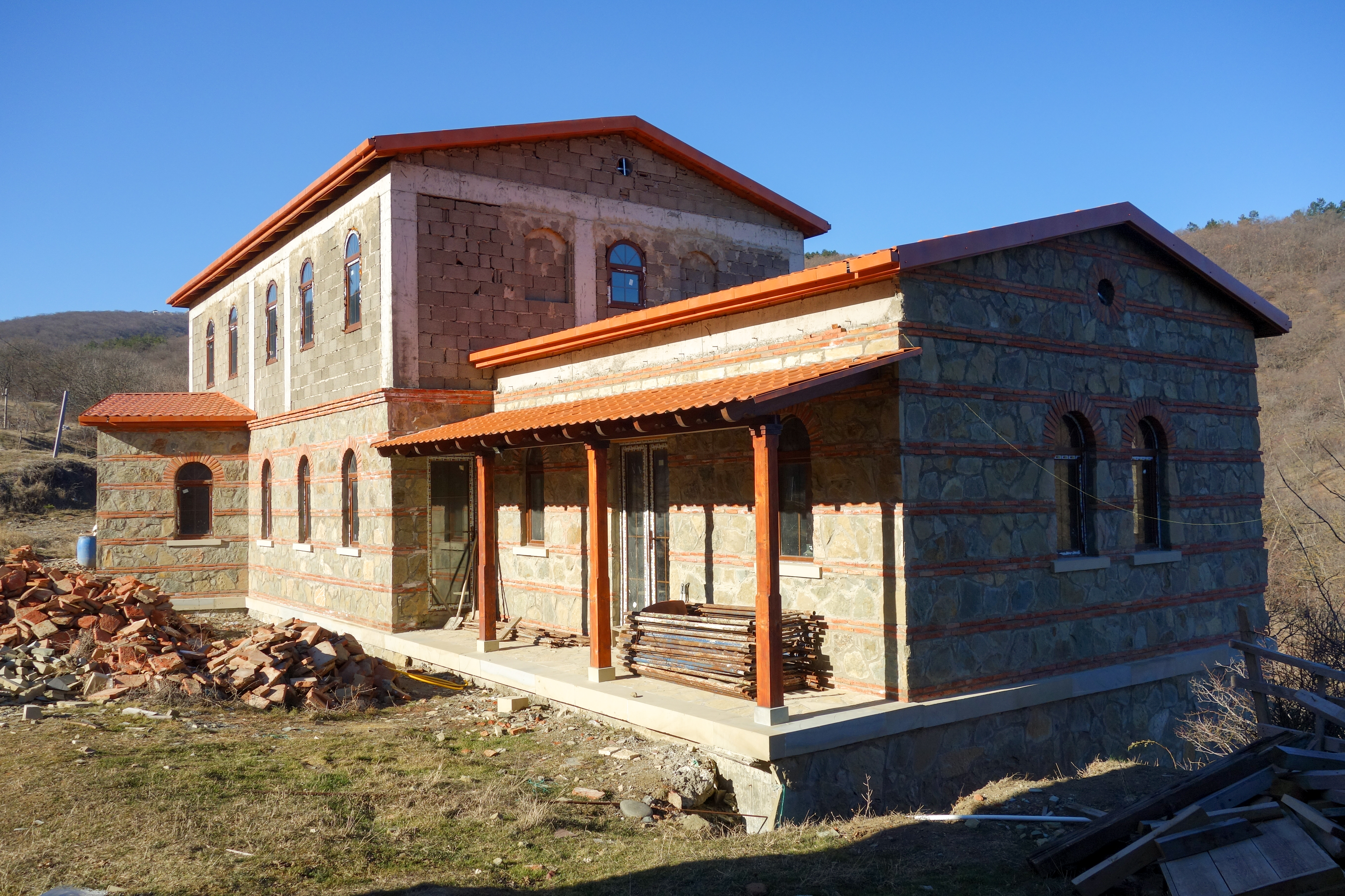 Gabashvili Palace (XVII-XVIII cc.), Tkhinvali, Georgia